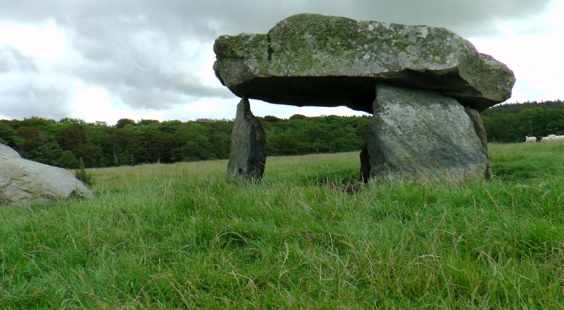 Huge capstone supported by three upright stones, in central Anglesey. It is in the care of Cadw. A smaller, collapsed structure is to the side,just out of the picture.